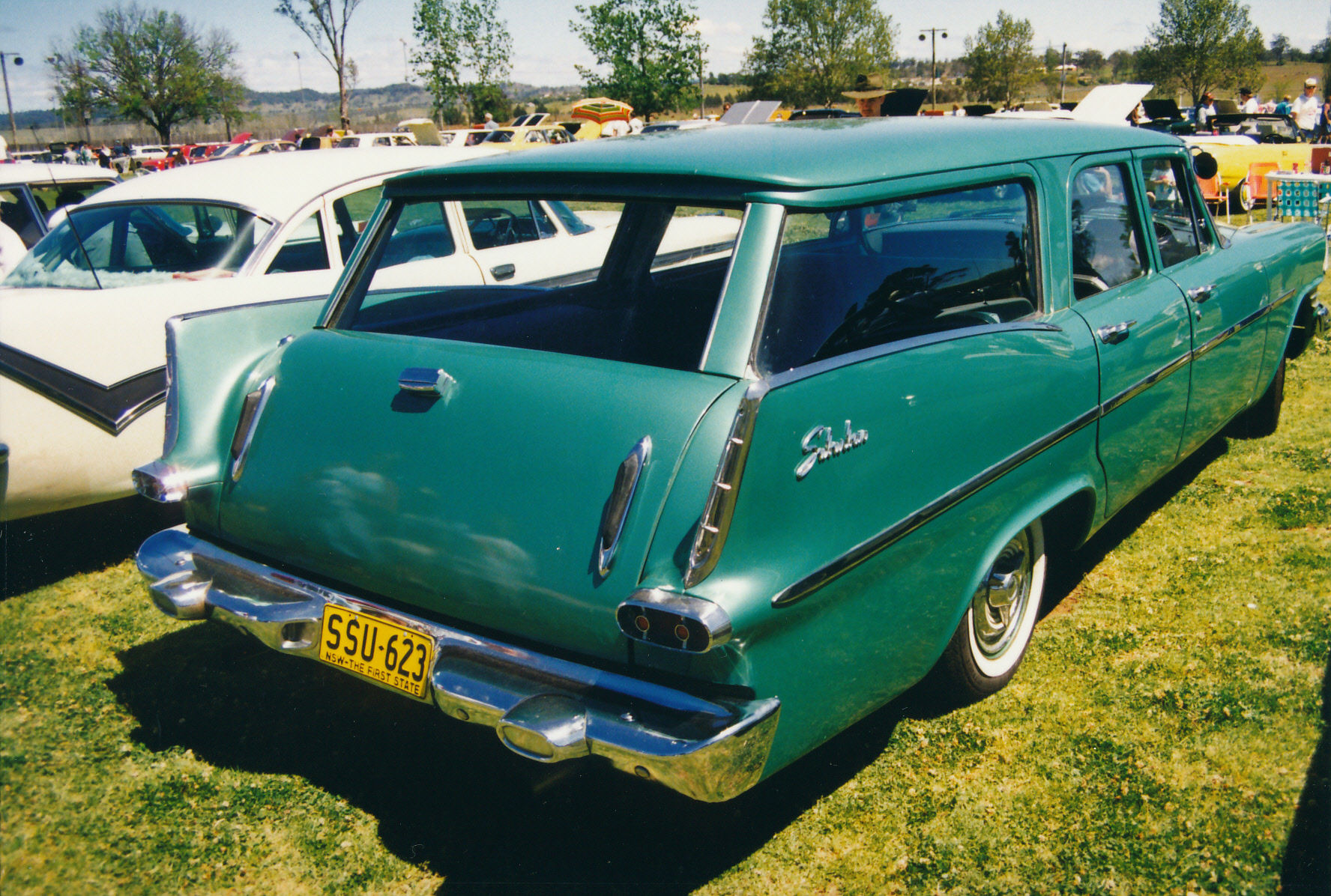 This image is a scan of a 35 mm print taken at the All Chrysler Day at Camden, NSW in 1993